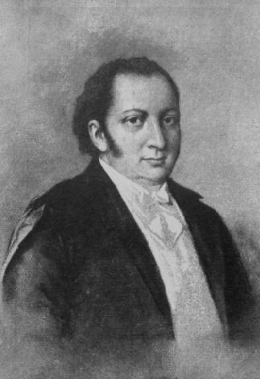 Portrait of Sámuel Köteles